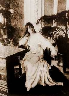 Iqbal (22 October 1876-10 February 1941), the wife of Khedive Abbas II of Egypt